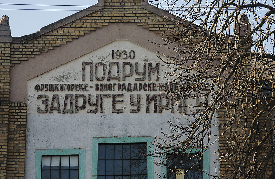 Winery in Irig, 1930.